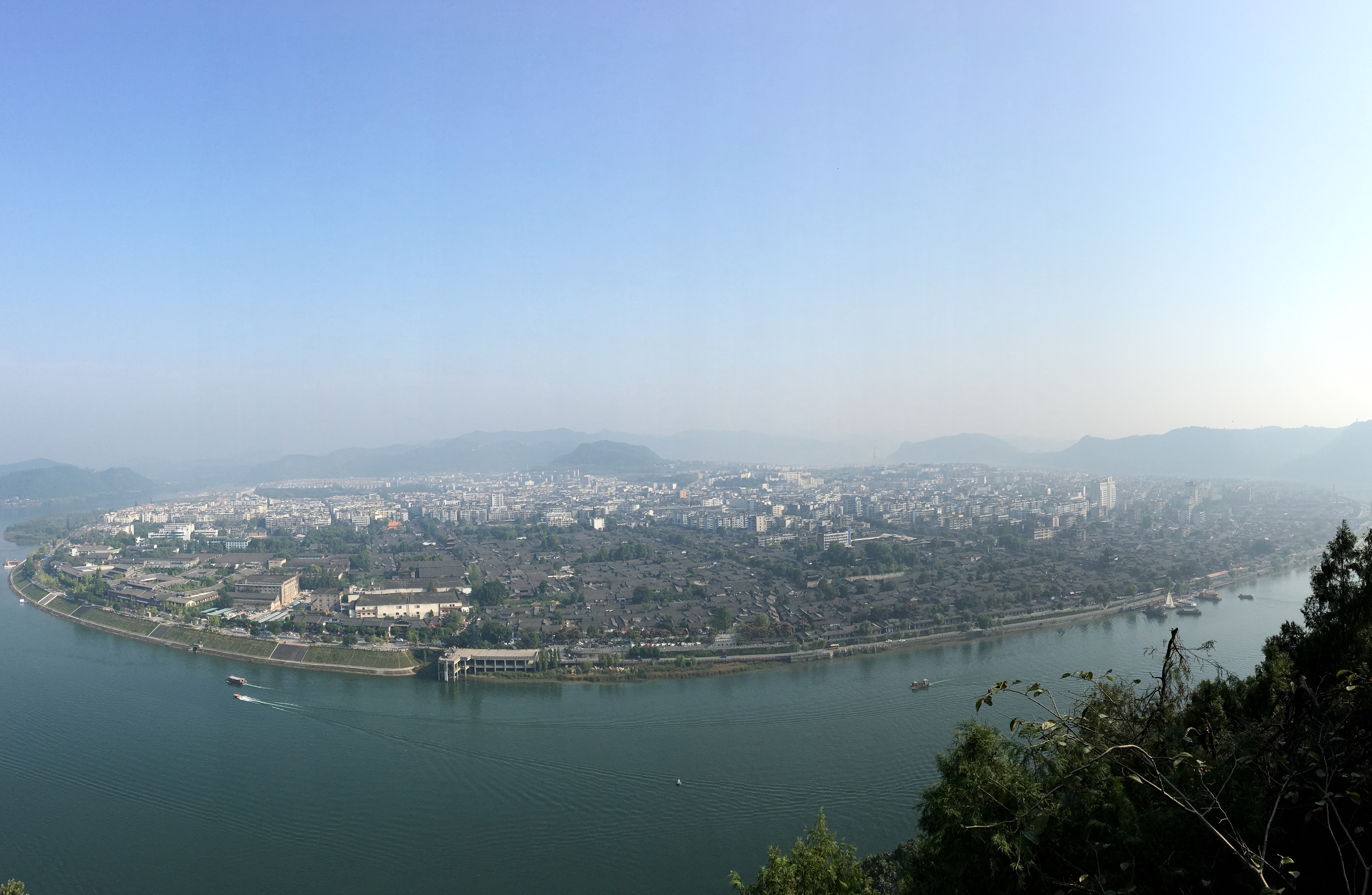 An air view of Langzhong Ancient Town, Nanchong, Sichuan Province, China. This photo is taken on Jinping Mountain.